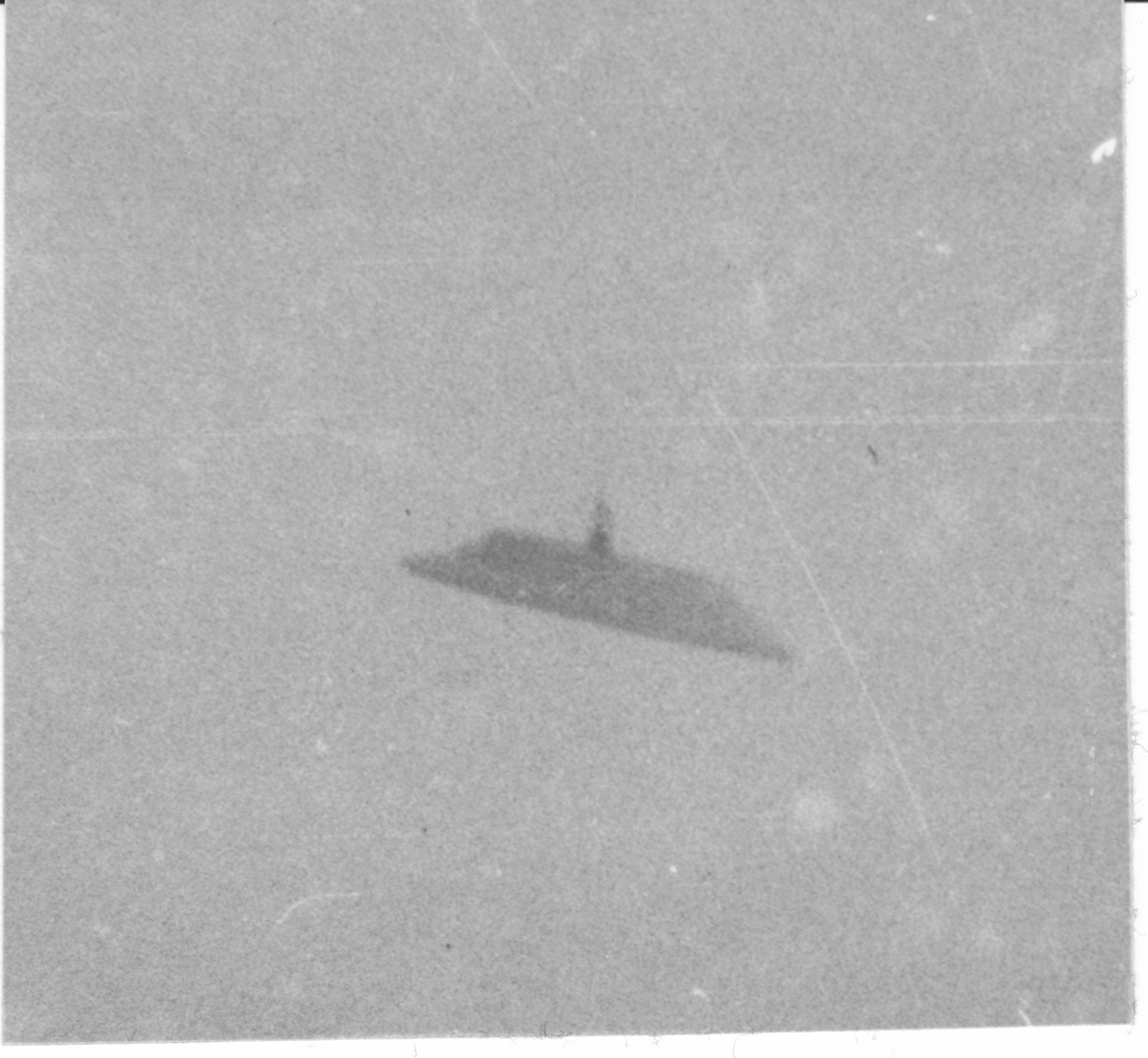 Second image of ufo above Trent's farm in McMinnville, 1950.